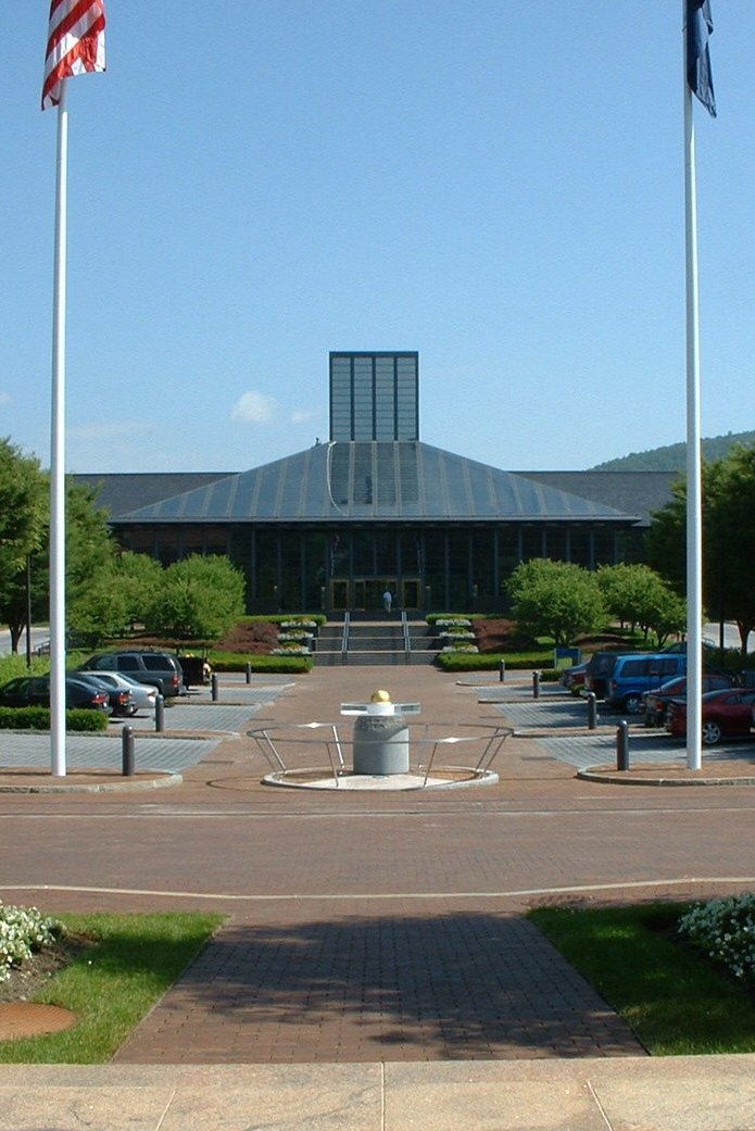 Headquarter of Corning, Inc., in Corning, NY